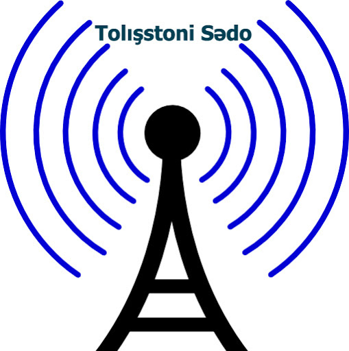 The logo of the "Tolishstoni Sado" radio